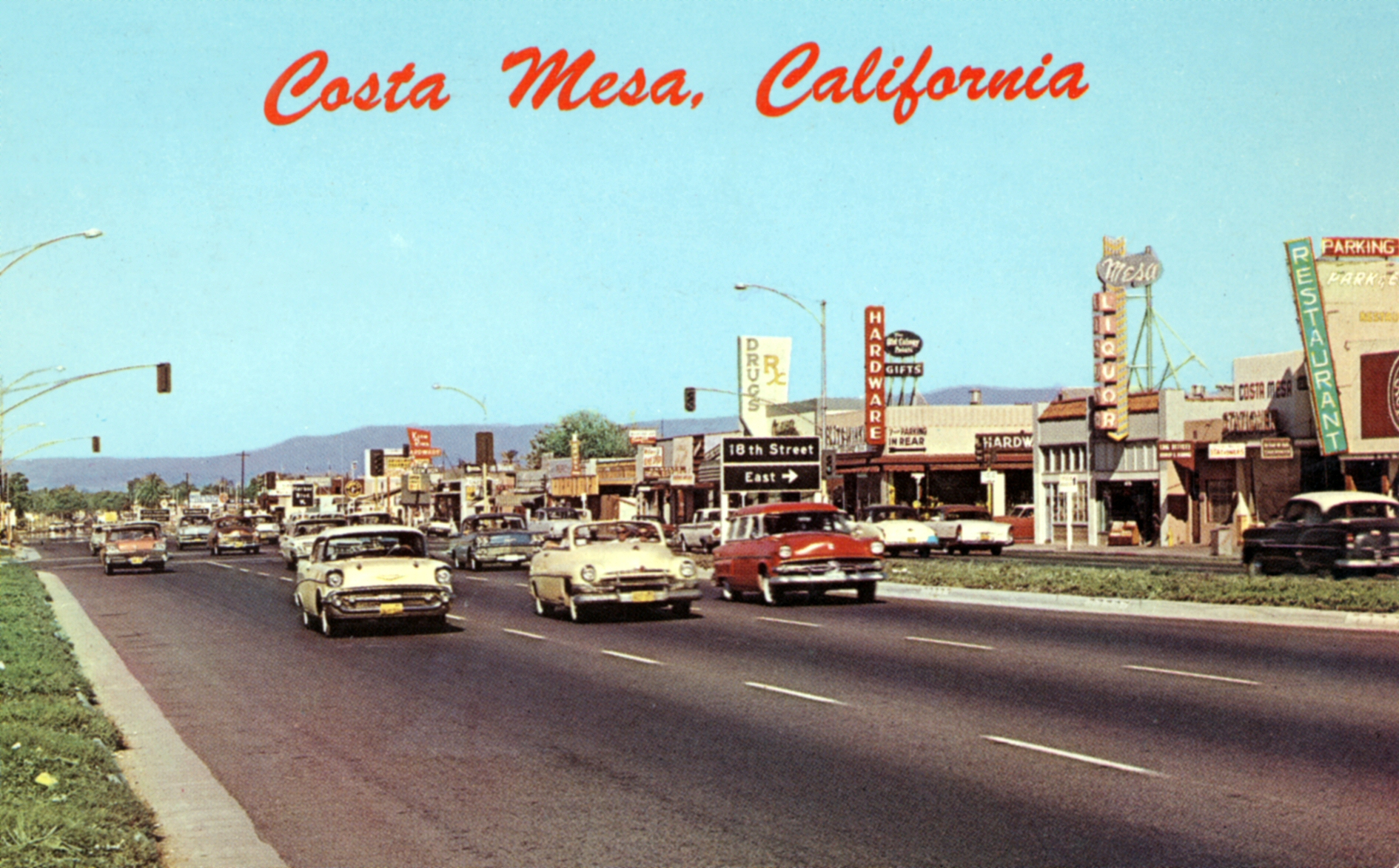 There are no known copyright restrictions on this image. All future uses of this photo should include the courtesy line, "Photo courtesy Orange County Archives." Comments are welcome after reading our Comment Policy. From the Don Dobmeier Postcard Collection. Acc#2011-42